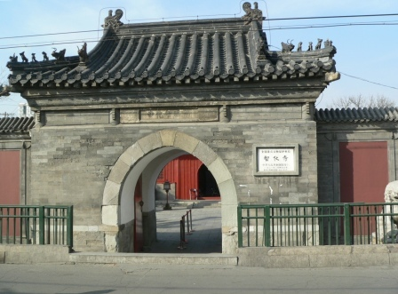 智化寺 山门 (main entrance to the Zhihua Si Temple in Beijing, China) Category:鐘樓